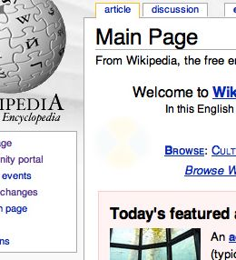 More accurate impression of Haidinger's brush This image is intended to give a more accurate impression of the appearance of Haidinger's brush than Haidinger's brush.jpg. It is a combination of haidinger-brush.jpg, a screen shot of the Wikipedia main page, and Photoshop manipulation. The combination and manipulation were made by Daniel P. B. Smith (who has one initial too many), 2005. It is derived entirely from GFDL-licensed material and the new combination is released under GFDL by Daniel P. B. Smith.